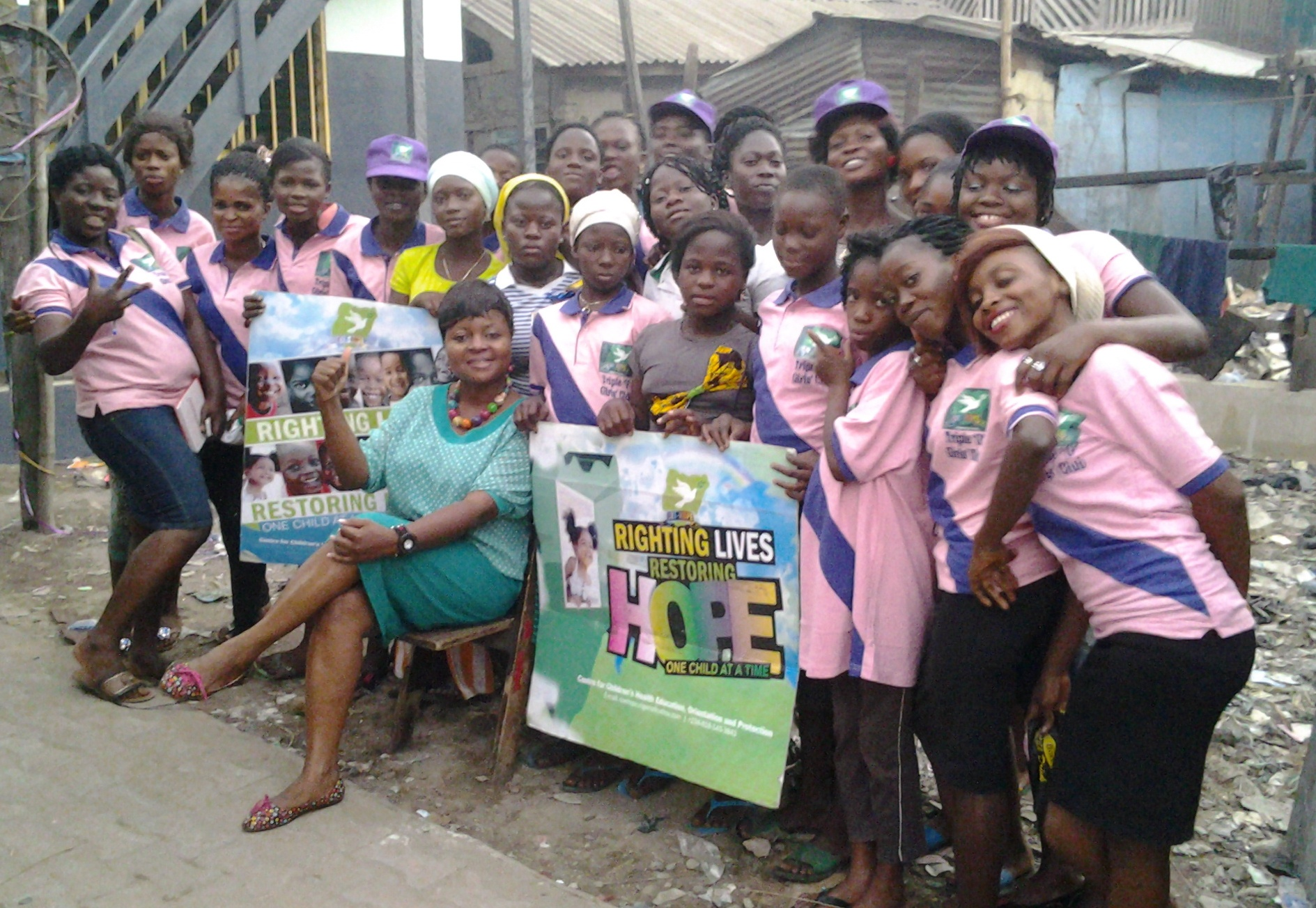 Pioneer members of Triple Girls' Club (Girl Empowerment Initiative), Makoko chapter with founder, Betty Abah